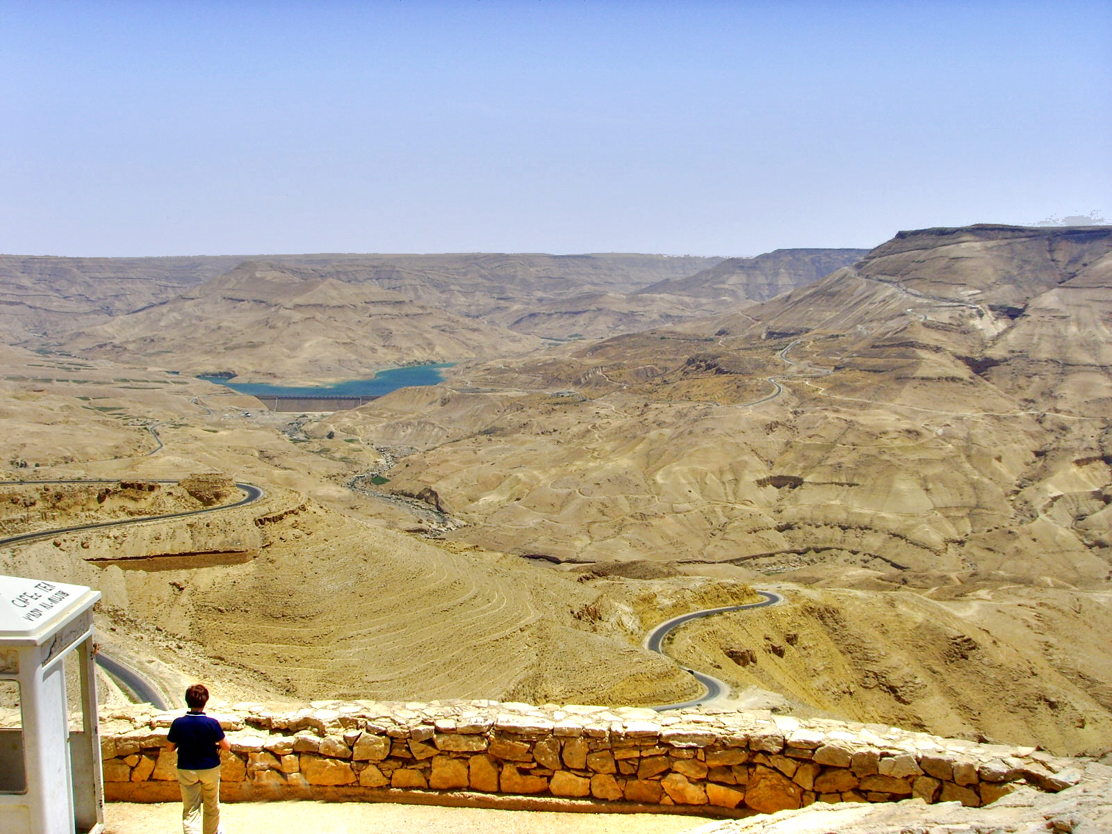 Wadi Mujib